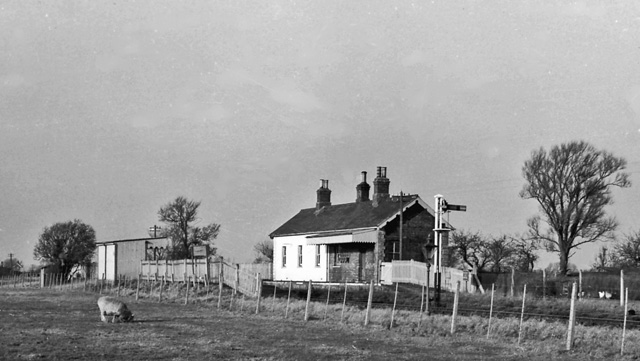 Brookland Halt. View NW, towards Appledore; ex-South Eastern & Chatham branch, Appledore - New Romney. The passenger service on the branch was withdrawn a month later, 6/3/67, but for goods not until 4/10/71.